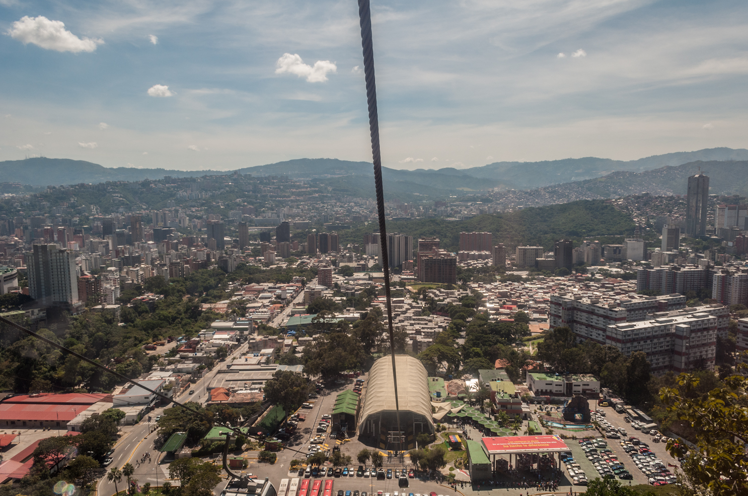 Panoramic view of Caracas from Teleférico